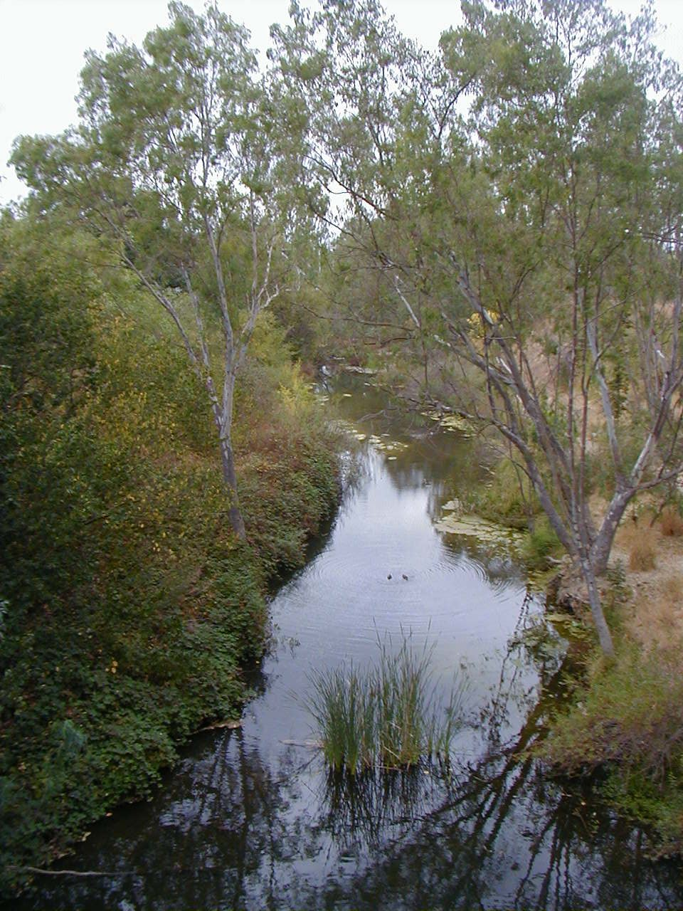 Photograph made and uploaded by Michael C. Berch (User:MCB) on 2002-10-24. Arroyo del Valle in Pleasanton, California, USA.